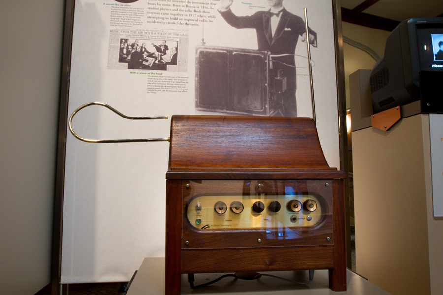 Theremin-Exhibit-02, Bakken Museum Wavefront Classic Theremin (wooden cabinet model)